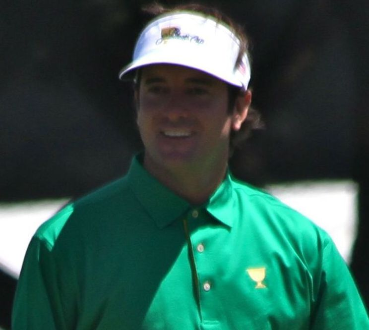 Bubba Watson at the 2011 Presidents Cup during a practice round on 15 November.